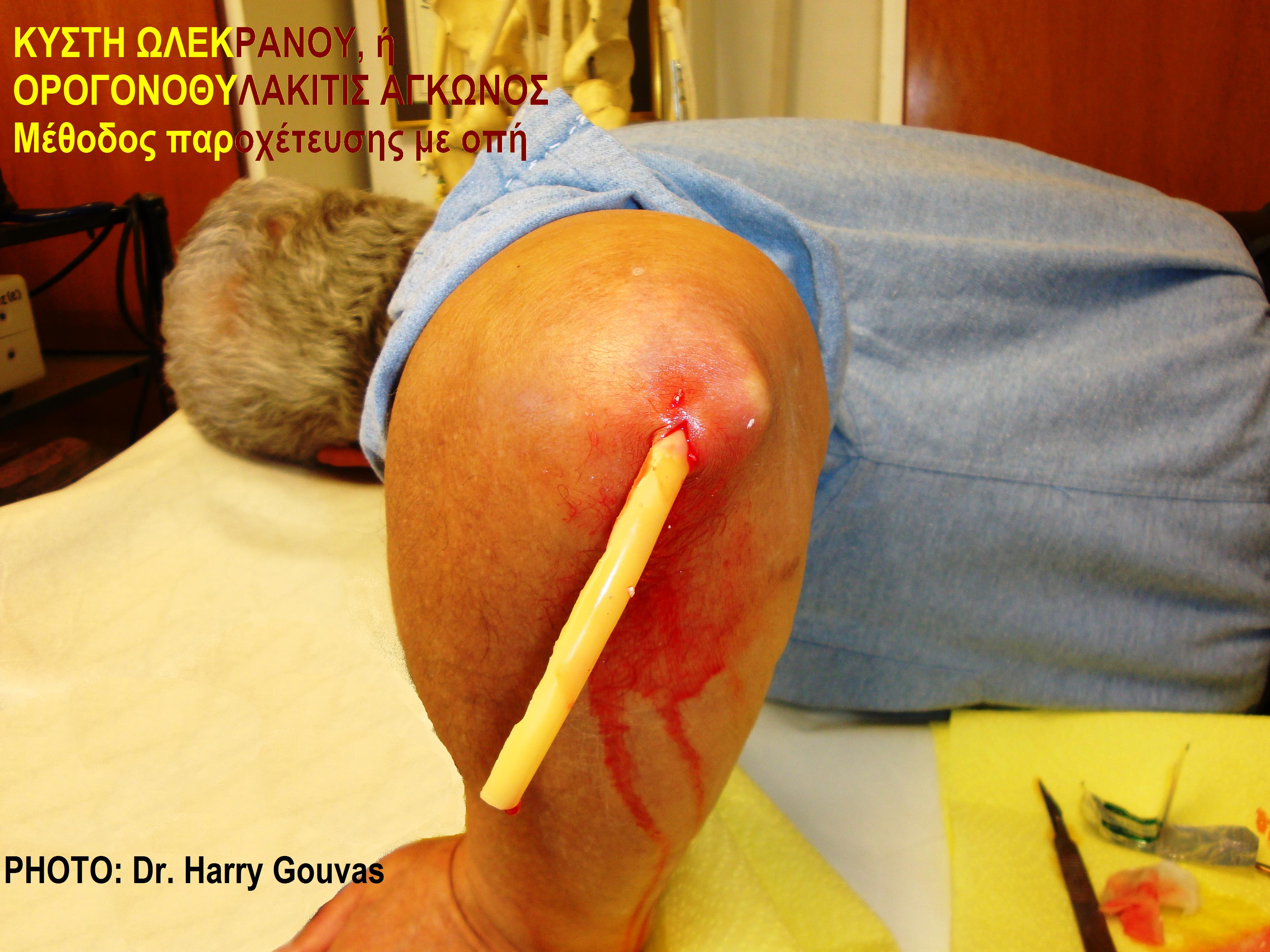 Olecranon bursitis